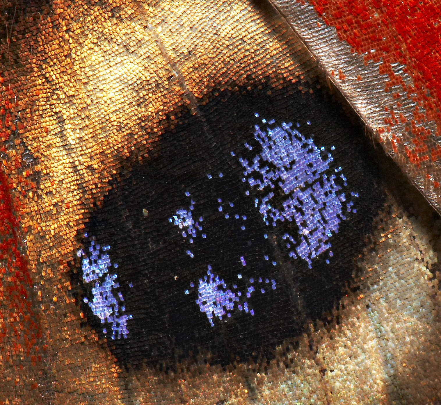 Detail of eyespot of peacock butterfly, Inachis io. Cropped from File:Inachis io top detail MichaD.jpg.